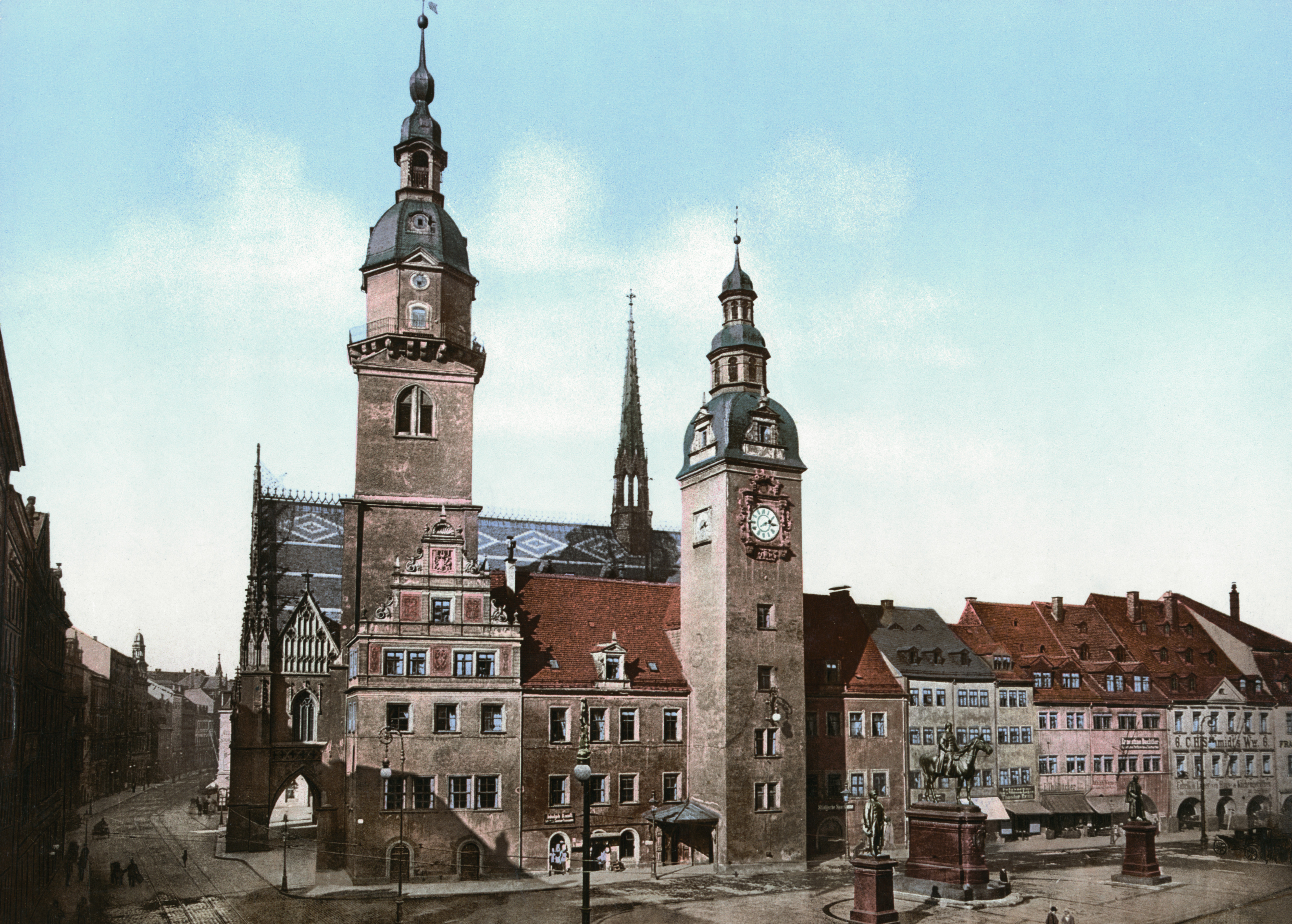 Chemnitz, old town hall, Germany. around 1900